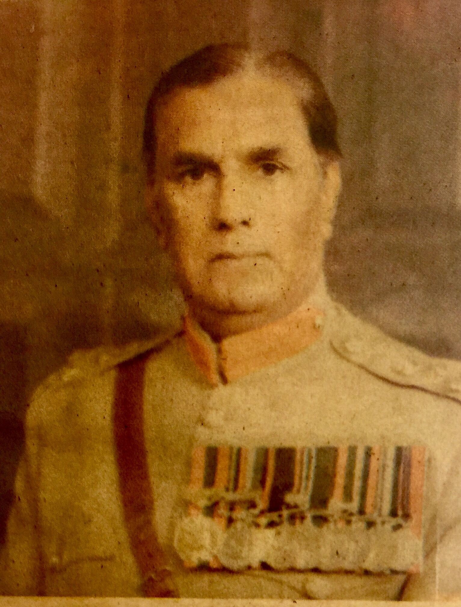 photograph of Brigadier Amjad Ali Khan Chaudhry